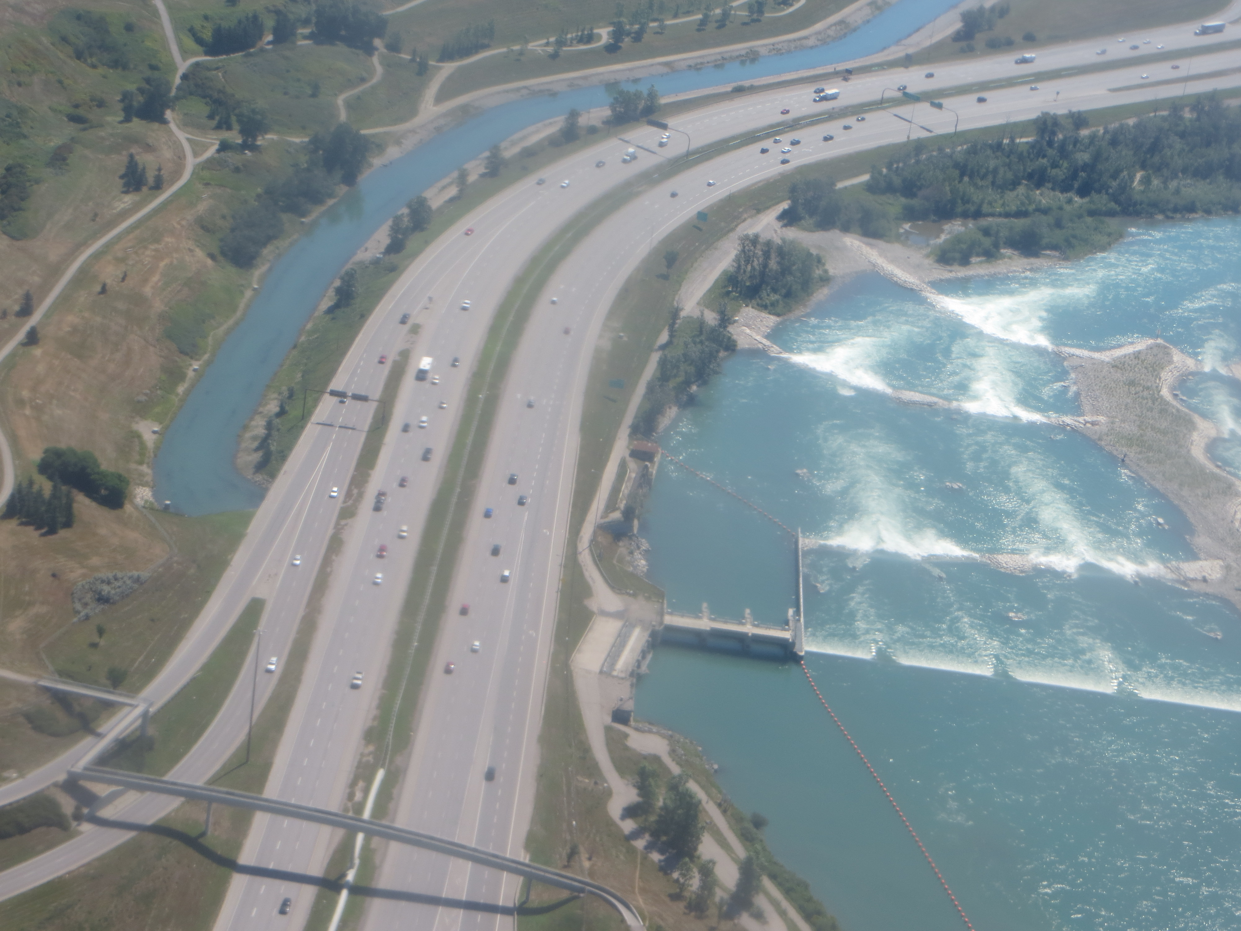 Deerfoot Trail near Memorial Drive